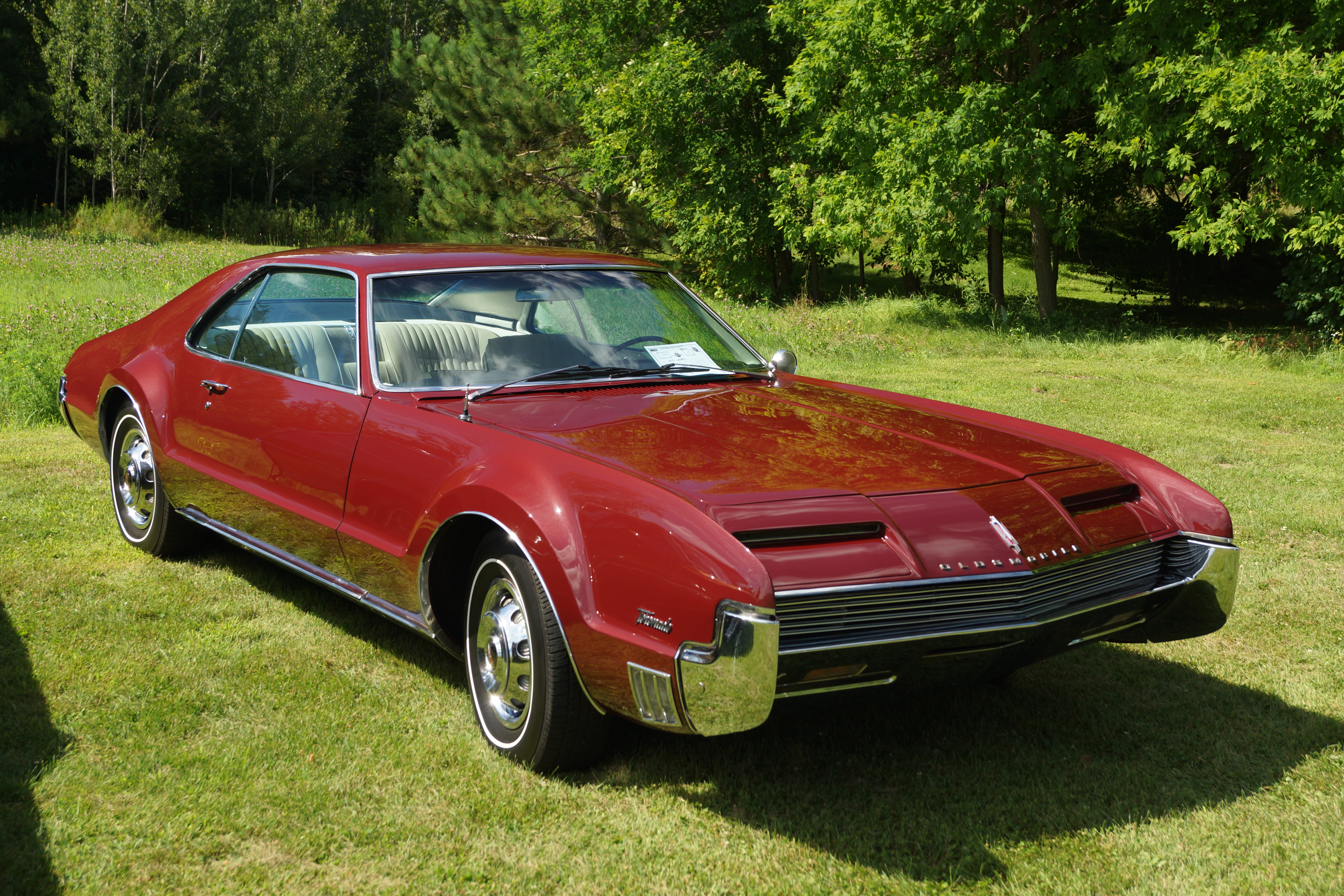 Minnesota Olds Club 40th Oldsmobile State Show & Swap meet Blacksmith Lounge Hugo, Minnesota August 2016